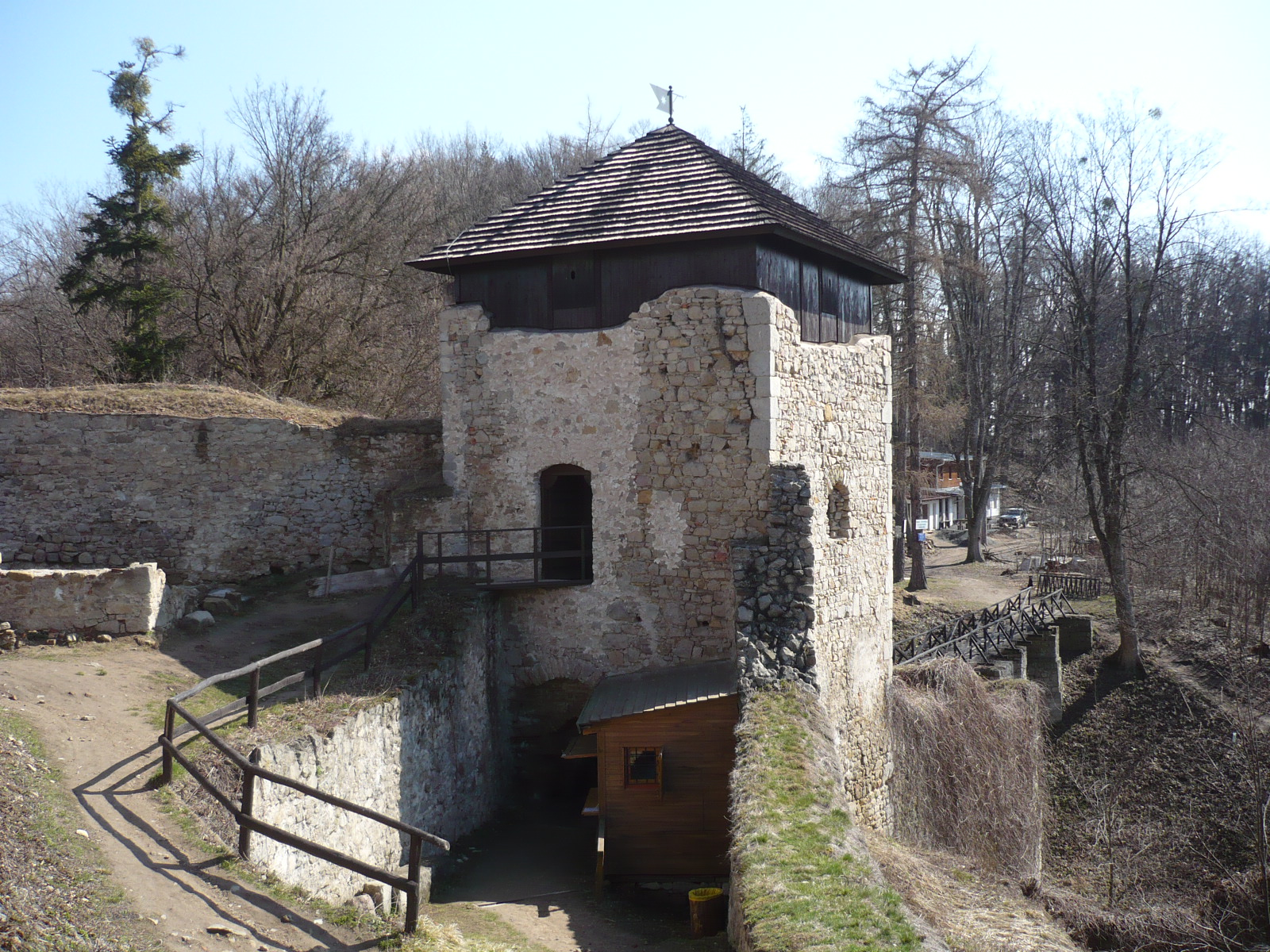 Castle Lukov, near village Lukov, District Zlin, Czech Republic - Gate from inside